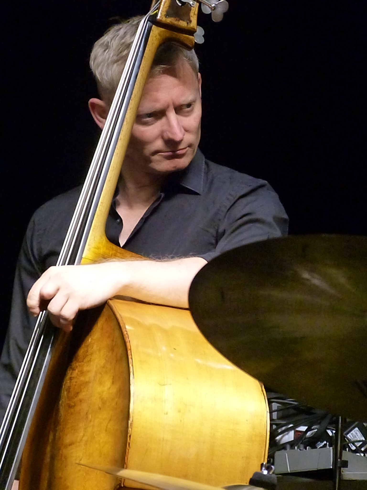 Markus Schieferdecker in concert „Live Remix“ with ‚Tonstrom Quartett & Alex Gunia’ in the concert event „Cologne Music Night“ at Thyssen Foundation, Cologne, Germany, September 19th, 2015